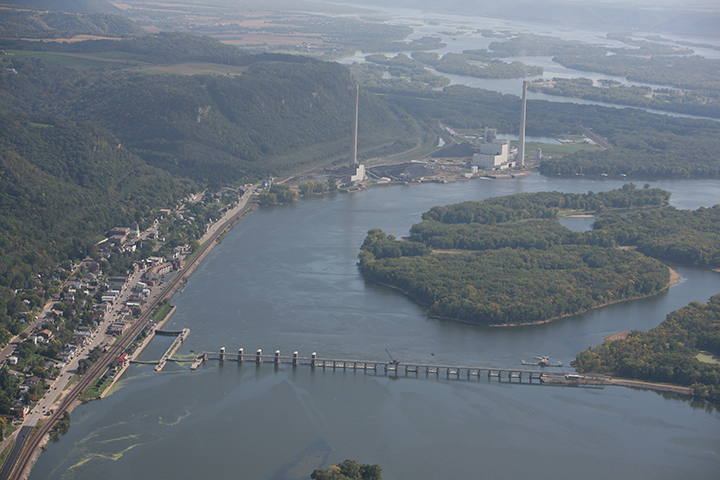 Lock and dam 4